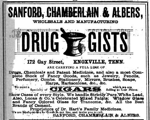 Advertisement for the Sanford, Chamberlain and Albers Drug Company in the Knoxville, Tennessee, USA, city directory of 1884. This company, established in 1872 by a merger of E. J. Sanford and Company and Chamberlain and Albers, operated in Knoxville as Albers, Inc., until 1994.